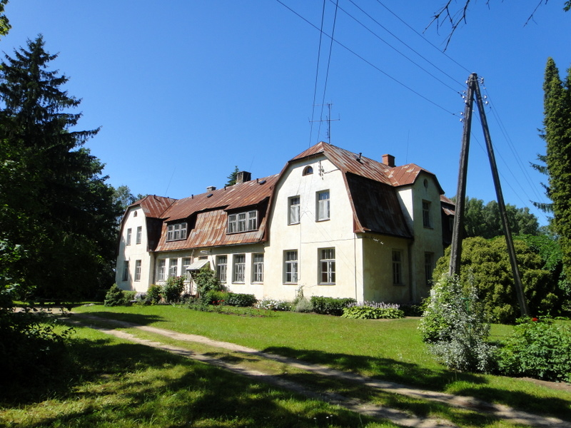 Lāde old schoolhouse ("Jaunlade manor")